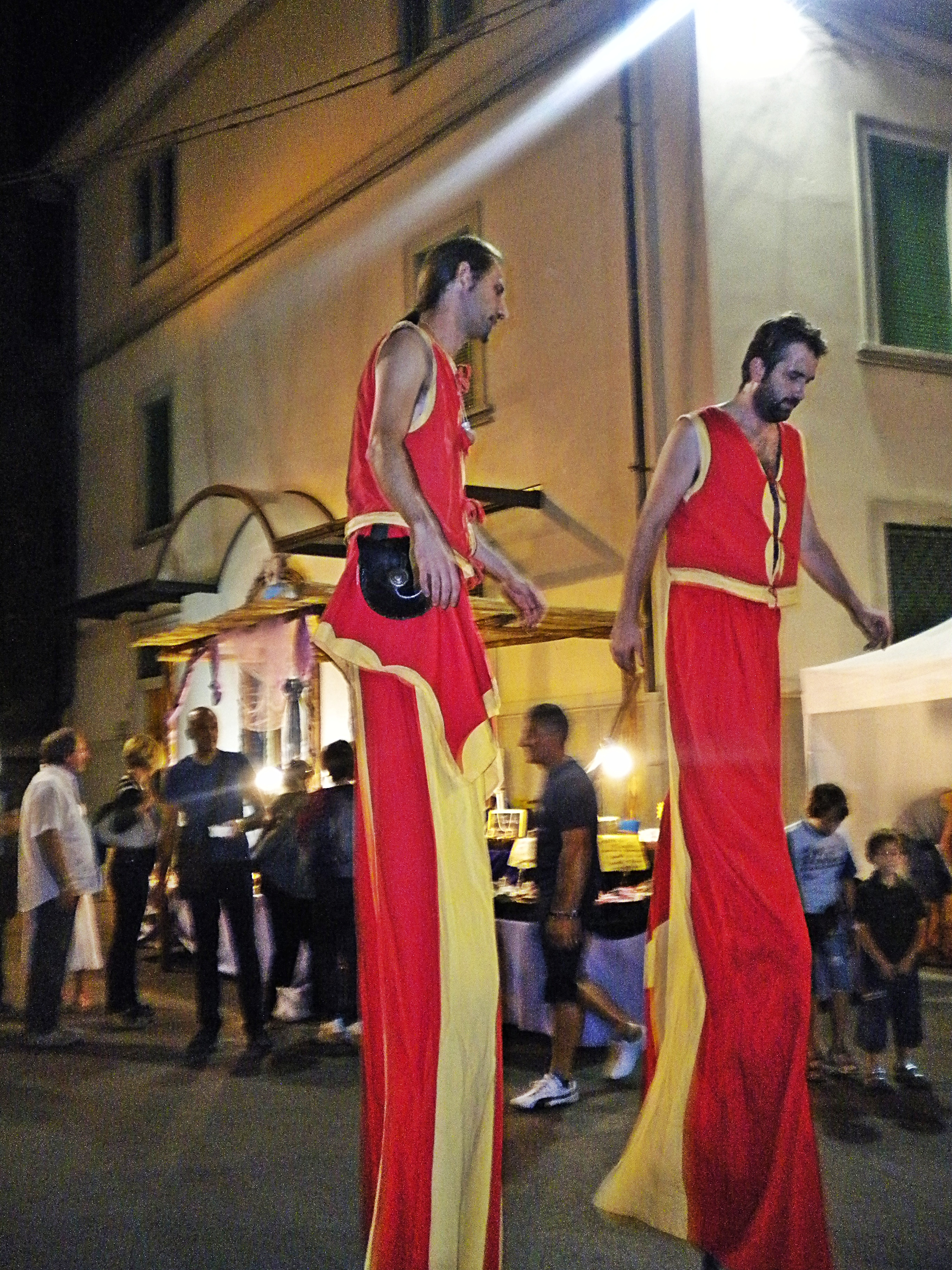 waders